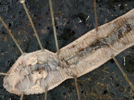 Annelida Oligochaeta (Lumbricus) Earthworm Paul.Paquette 16:34, 18 December 2005 (UTC)